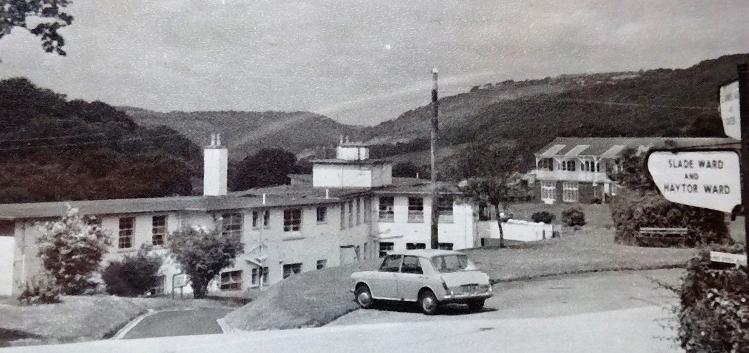 Hawkmoor Hospital wards, Bovey Tracey, South Devon, England. Circa 1950s. The site is now a housing estate.